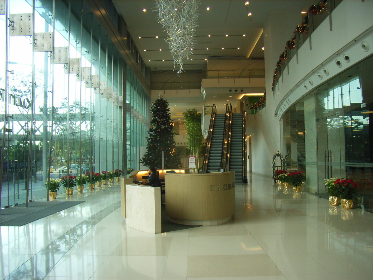 觀塘223宏利金融中心